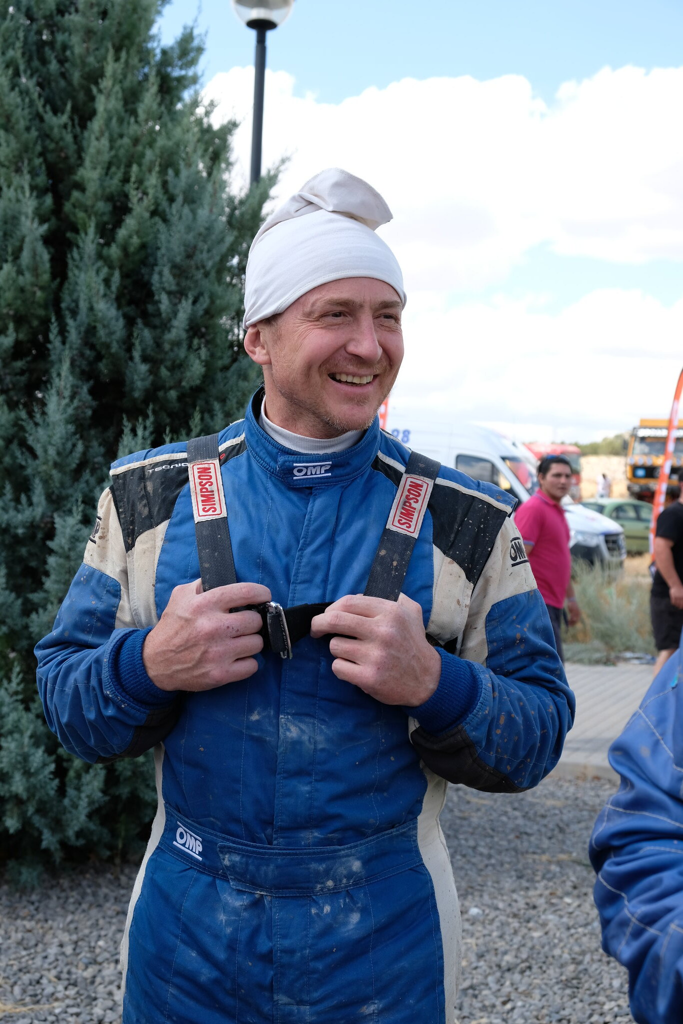 Rally driver Alexander Dorosinsky